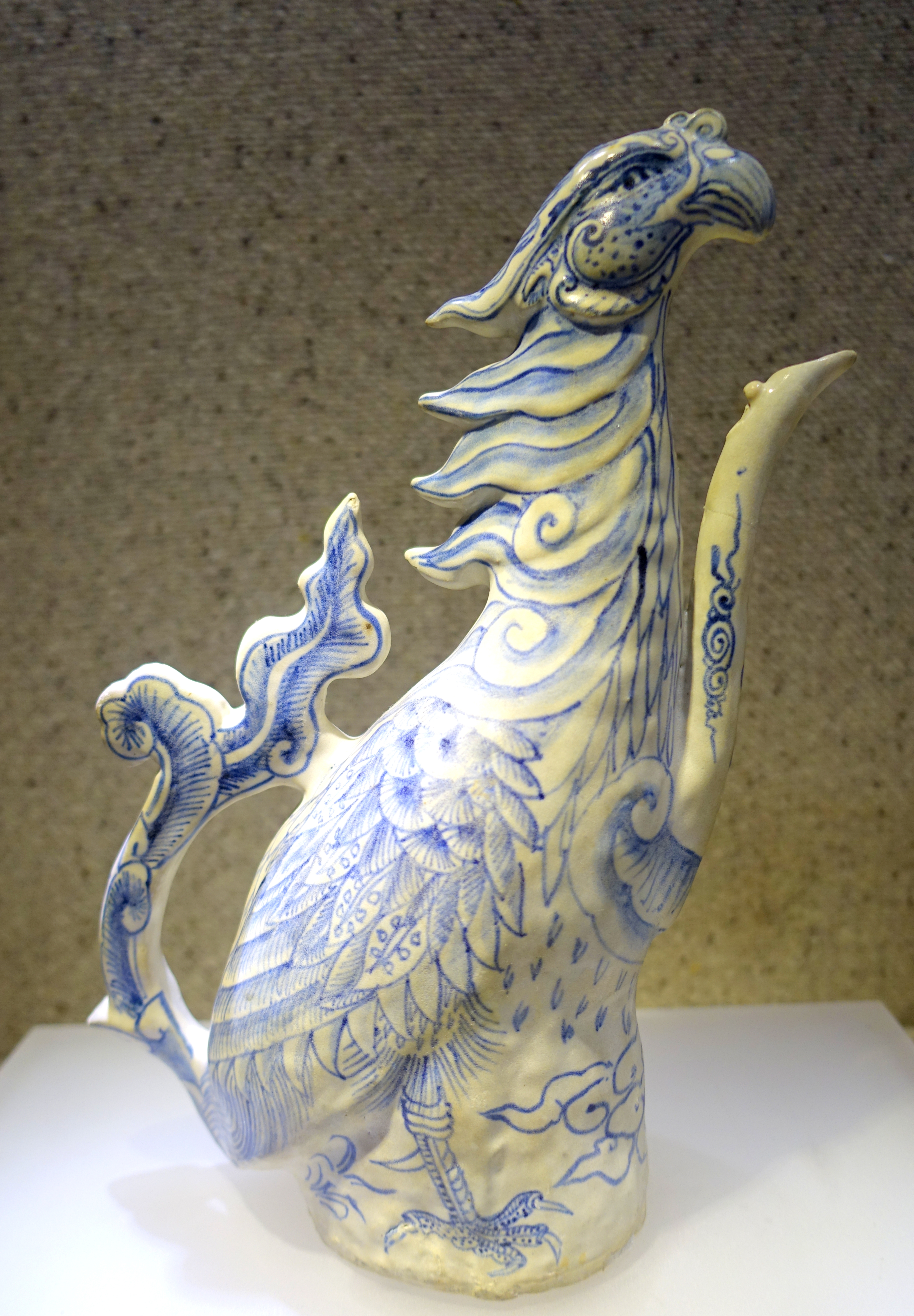 Exhibit in the National Museum of Vietnamese History, Hanoi, Vietnam. This artwork is old enough so that it is in the public domain.